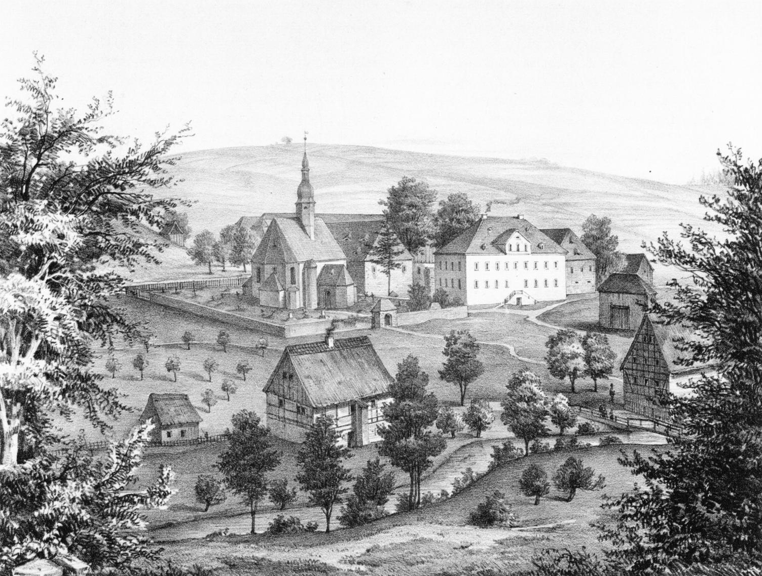 manor Mulda in the Erzgebirge